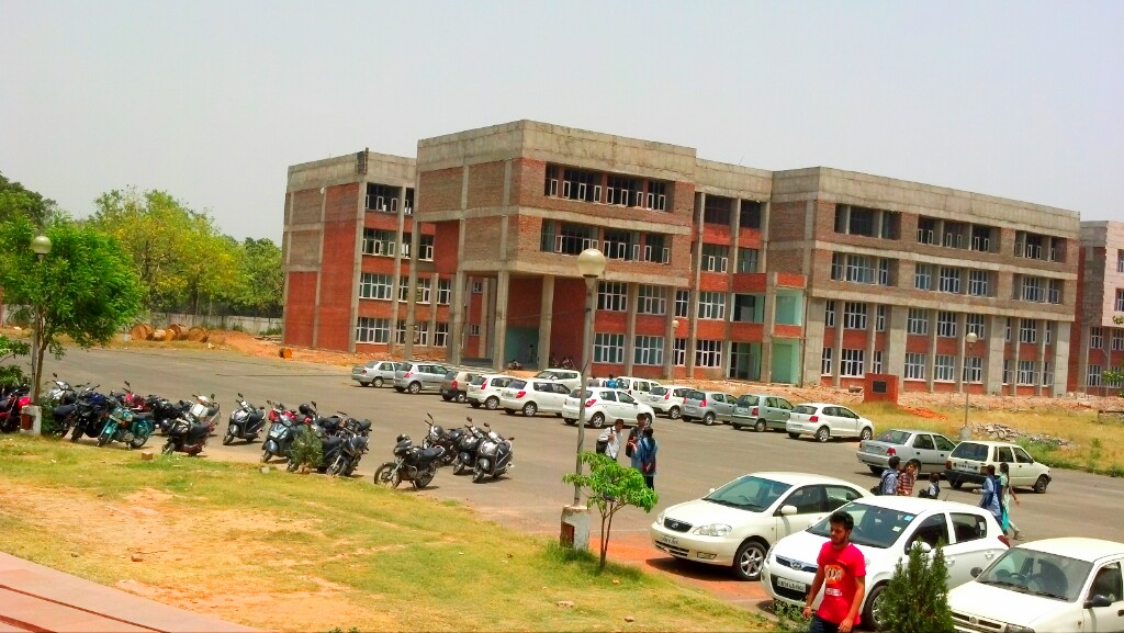 The under construction building of CCET.